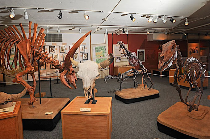 IMNH exhibit in located in Pocatello Idaho.